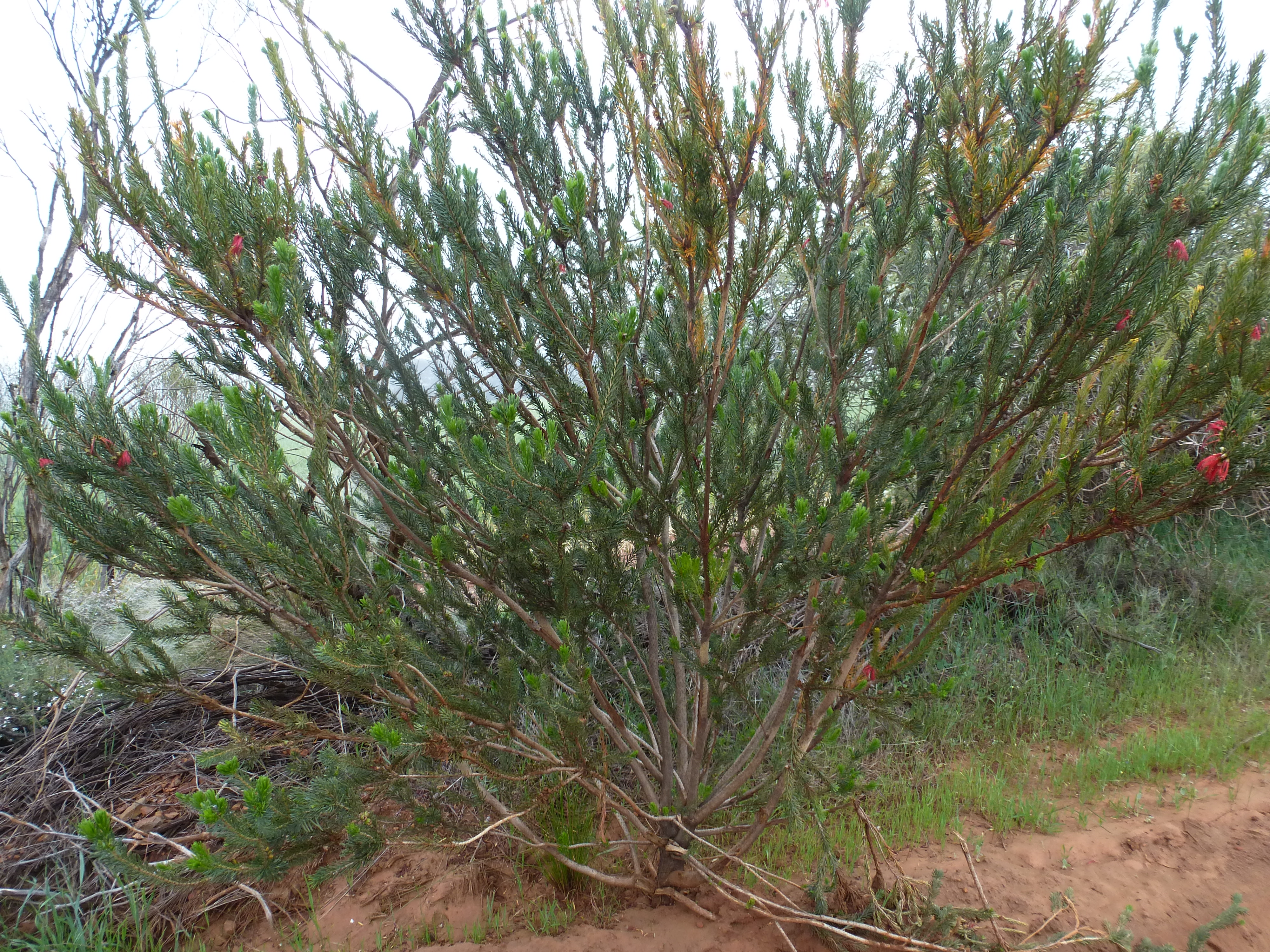 Calothamnus quadrifidus asper growing in Fowlers Gully near Wongan Hills